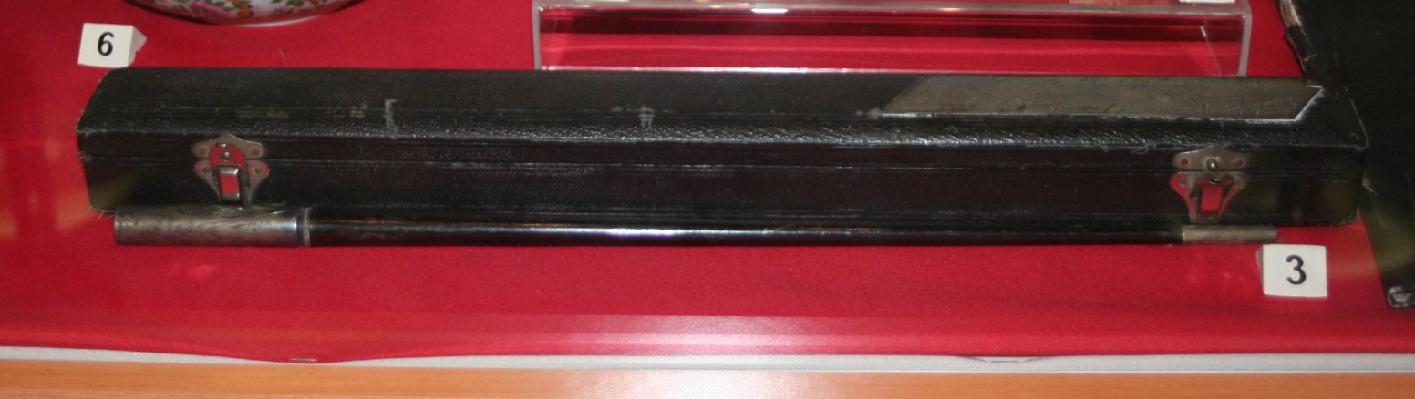 Composer Muslim Magomayev's conductor's baton and its case